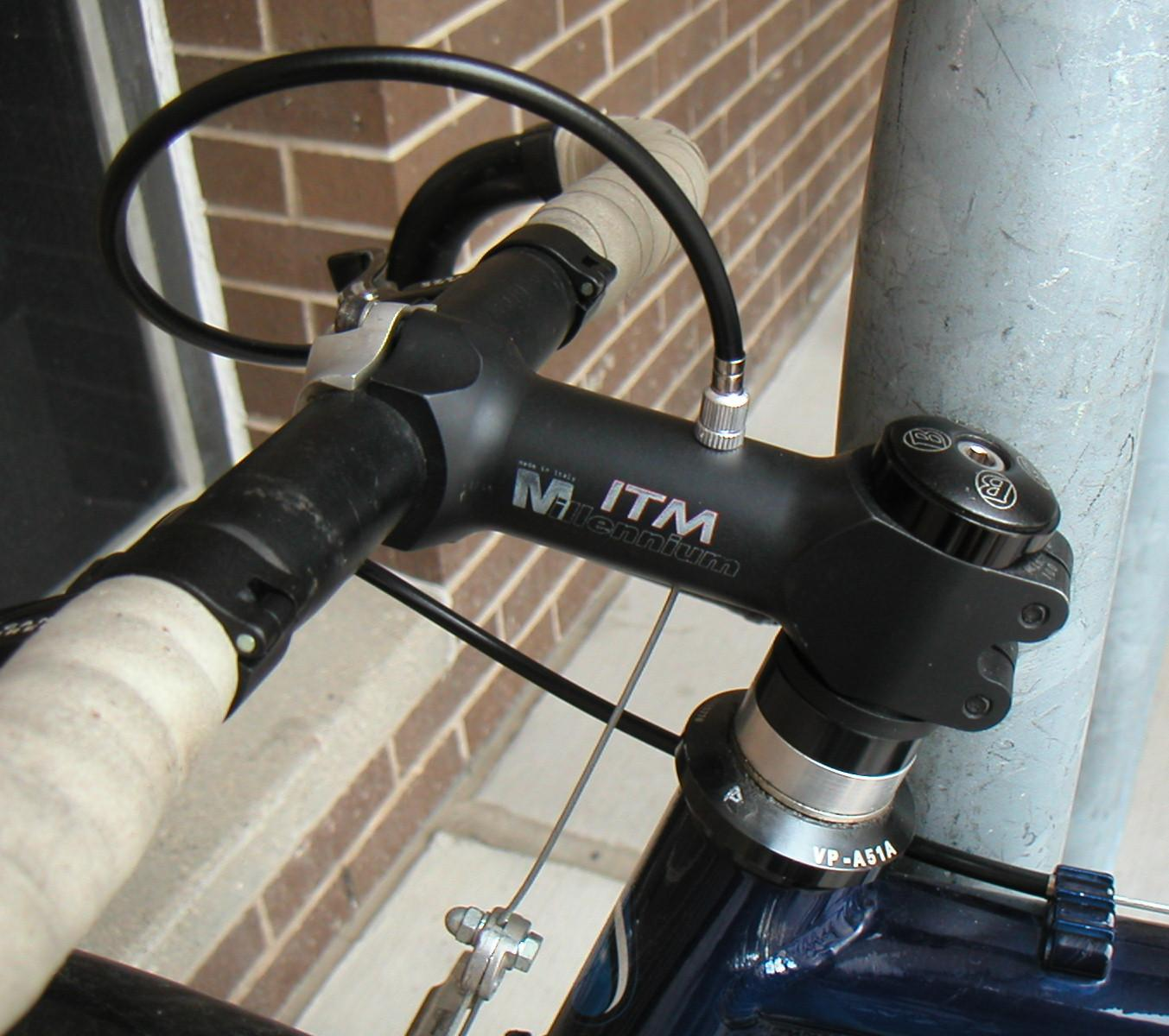 Taken by Andrew Dressel